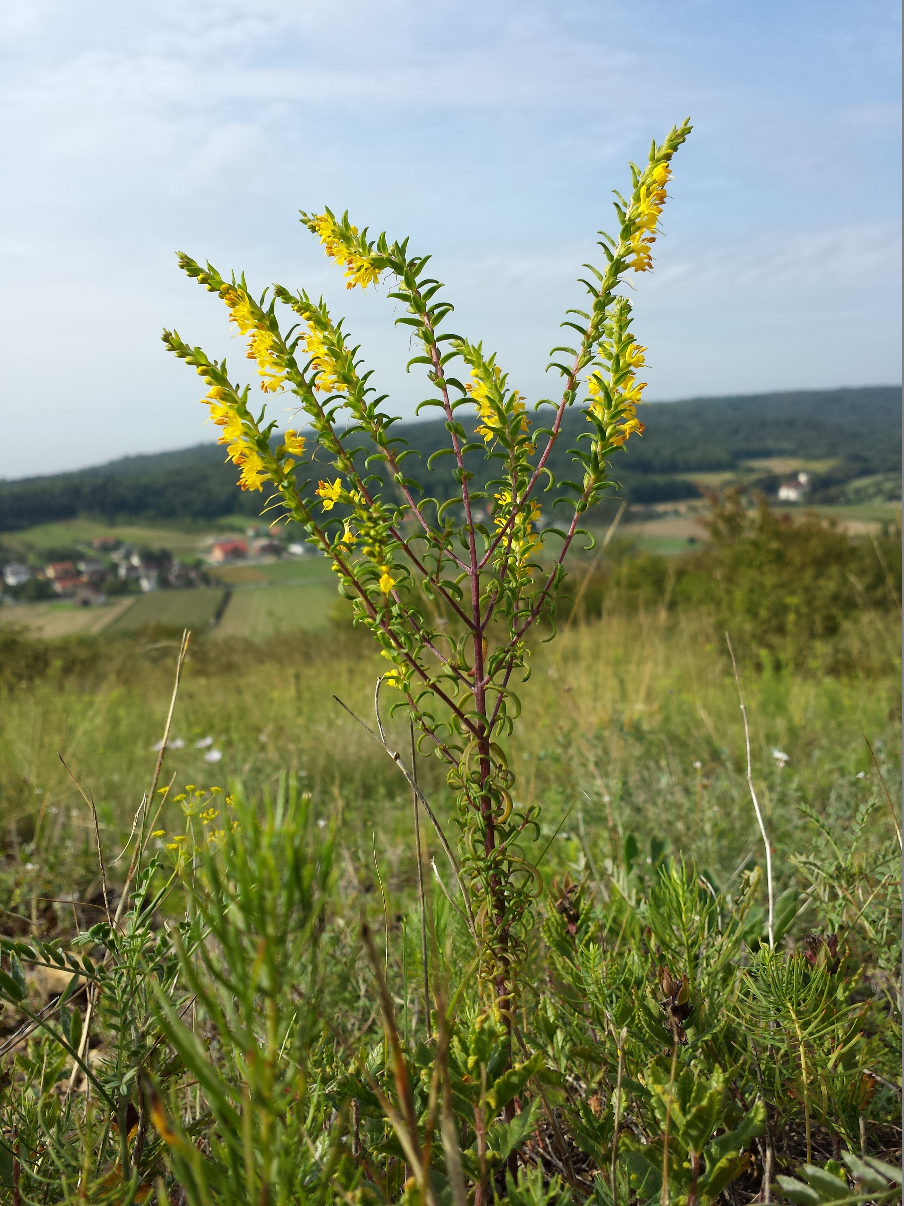 Habitus Taxon: Odontites luteus (sensu Fischer et al. EfÖLS 2008 ISBN 978-3-85474-187-9) Location: Natural monument Kronawettberg, Hagenbrunn, district Korneuburg, Lower Austria - ca. 275 m a.s.l. Habitat: dry grassland This media shows the natural monument in Lower Austria with the ID KO-043.